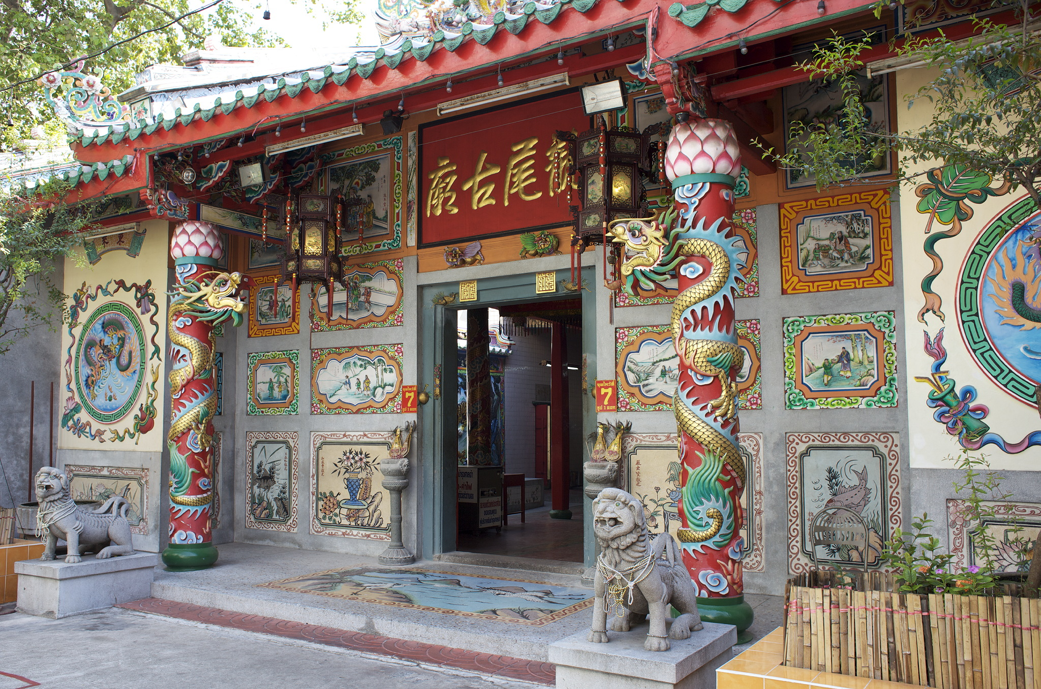 Leng Buai Ia Shrine, Bangkok, Thailand